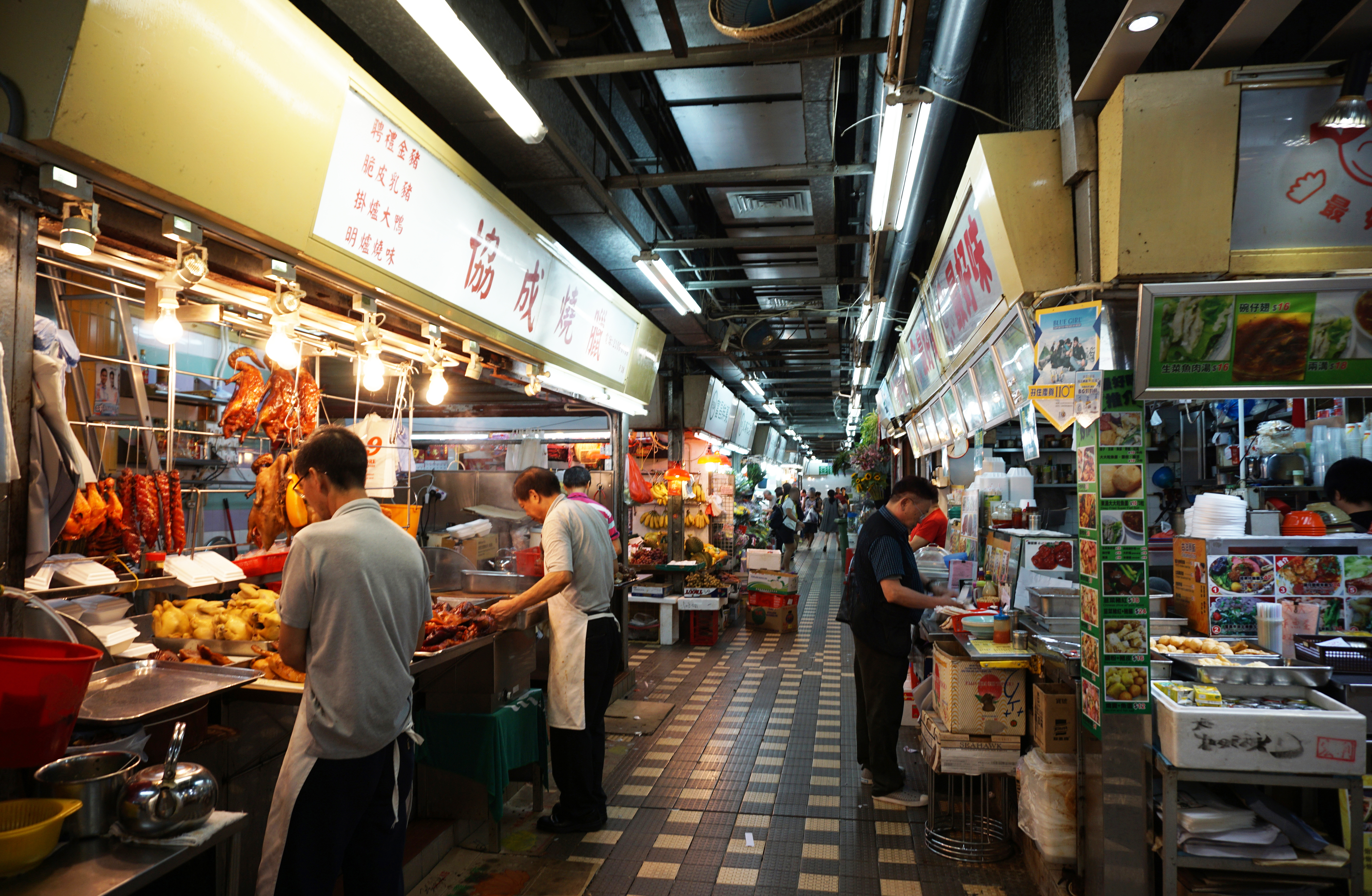 Fu Tung Market in Tung Chung, Hong Kong.